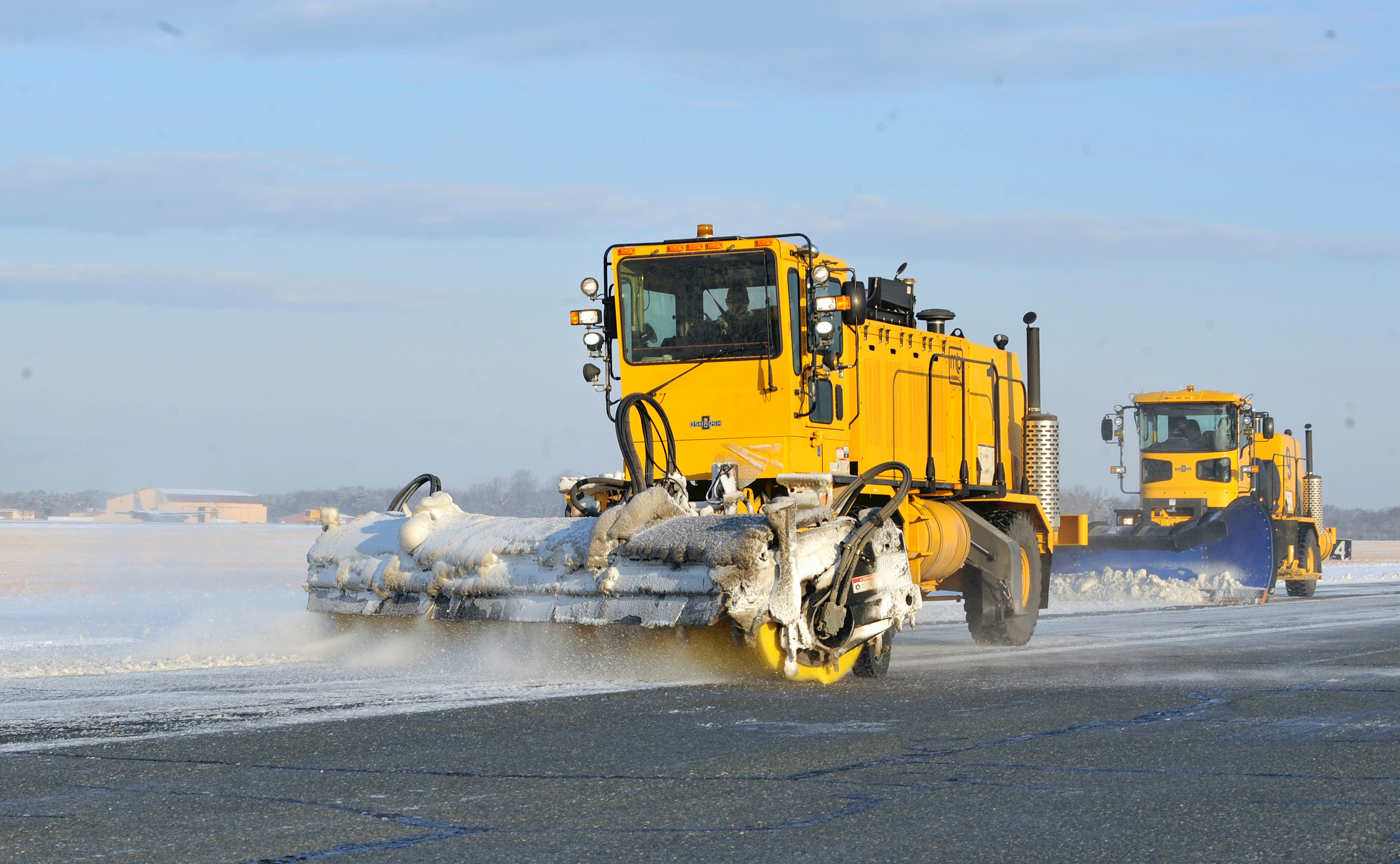 Snow removal trucks remove snow from the flight line at Joint Base Andrews Naval Air Facility Washington, Md., Jan. 8, 2010.